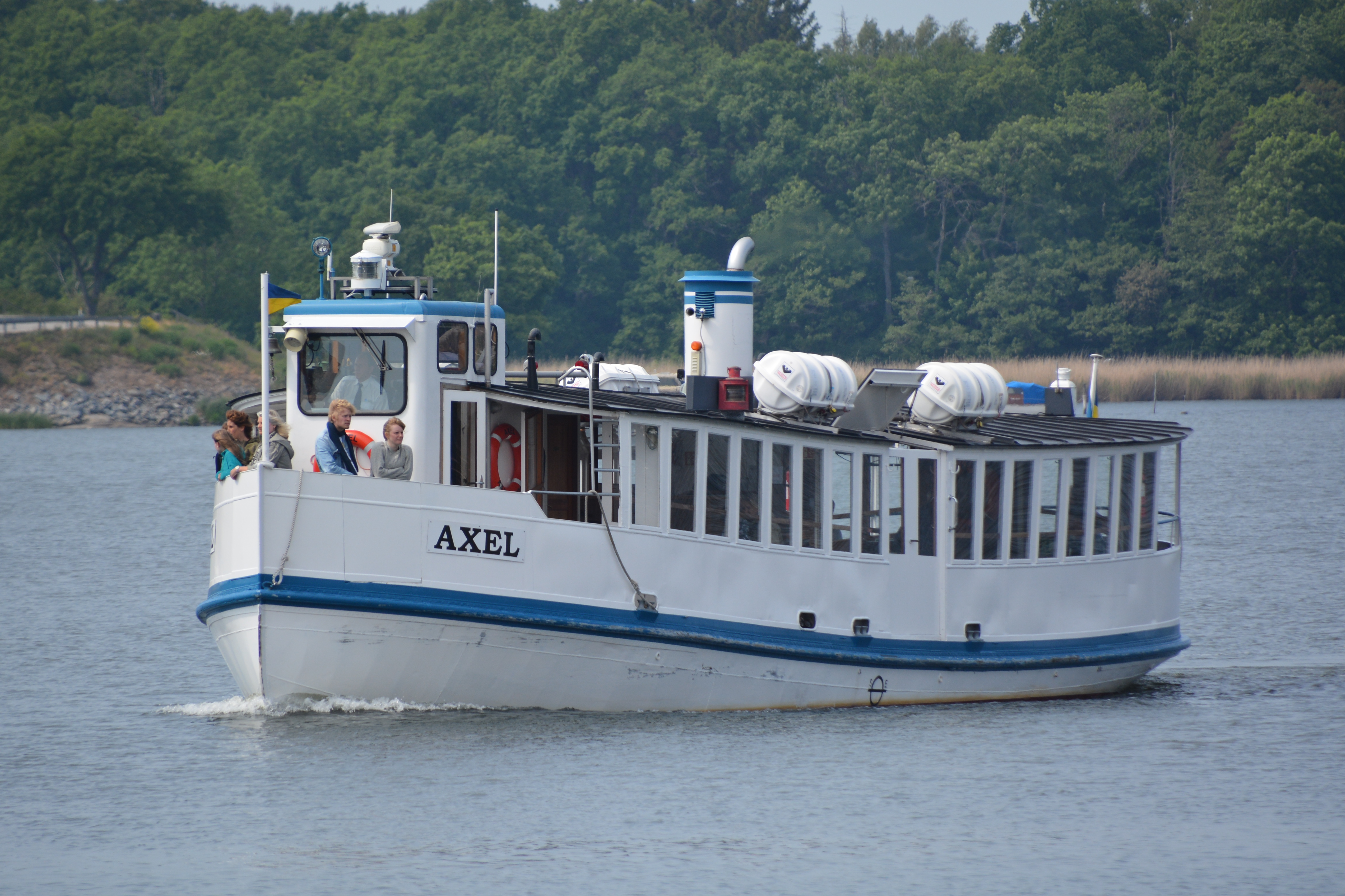 M/F Axel i hamninloppet till Karlskrona